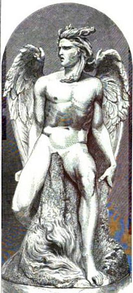 Engraving of the colossal statue Satan (or more often under the title Lucifer) by the Milanese sculptor Costantino Corti (1823/24–1873).